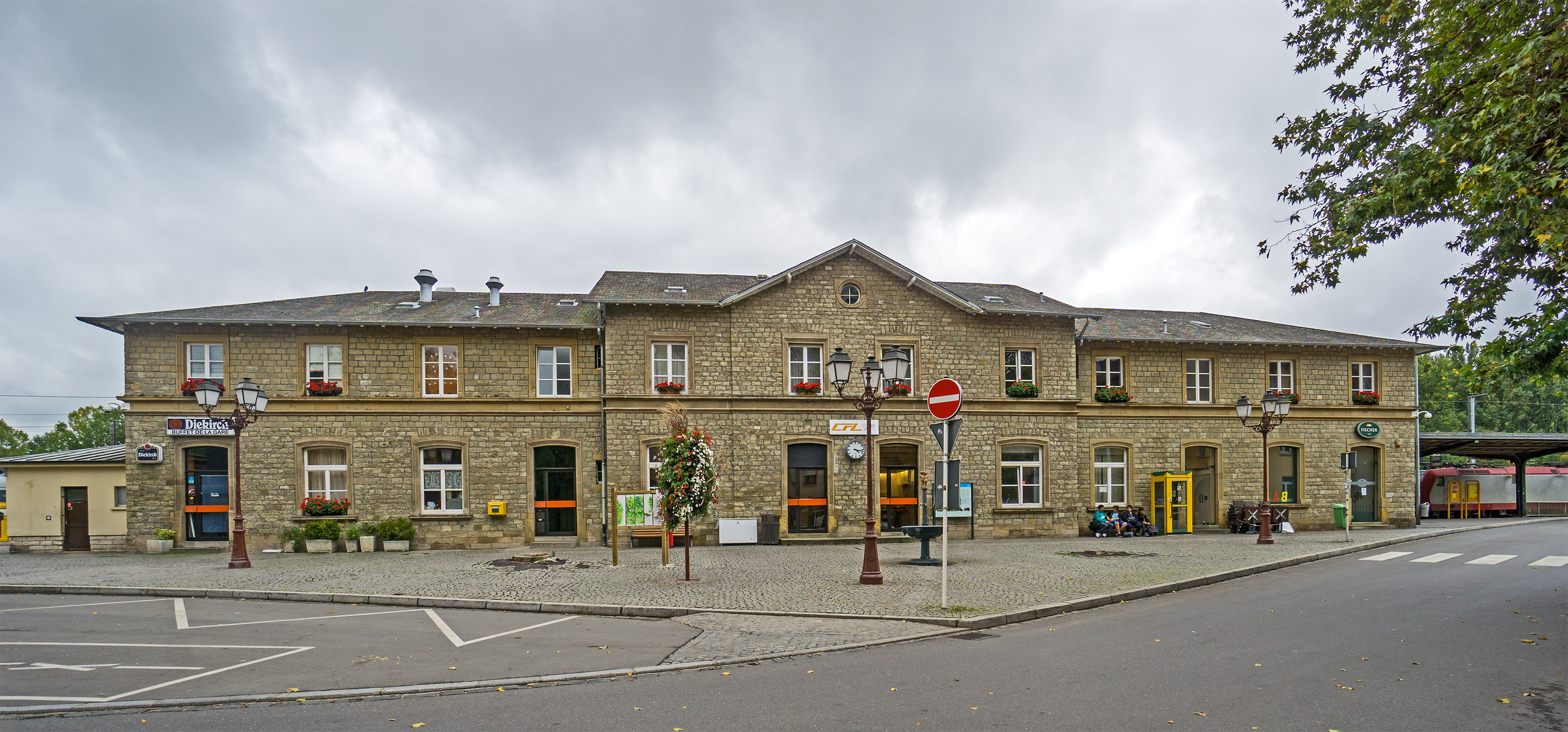 Ettelbruck train station from the side of the street